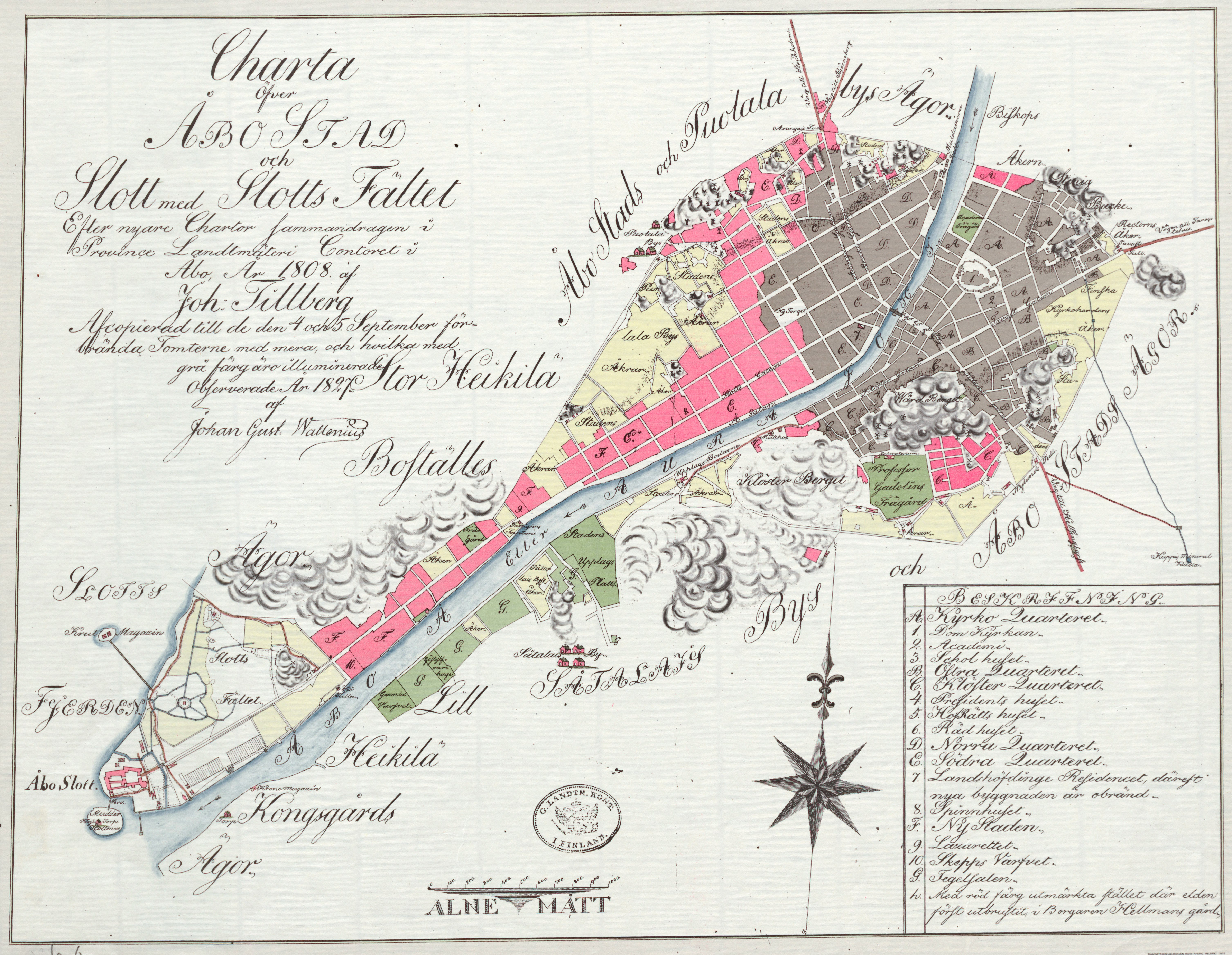 City map of Turku (Åbo) in Finland. The map was originally drawn in 1808 but area burned in the great fire of 1827 has later been marked in the map in grey.